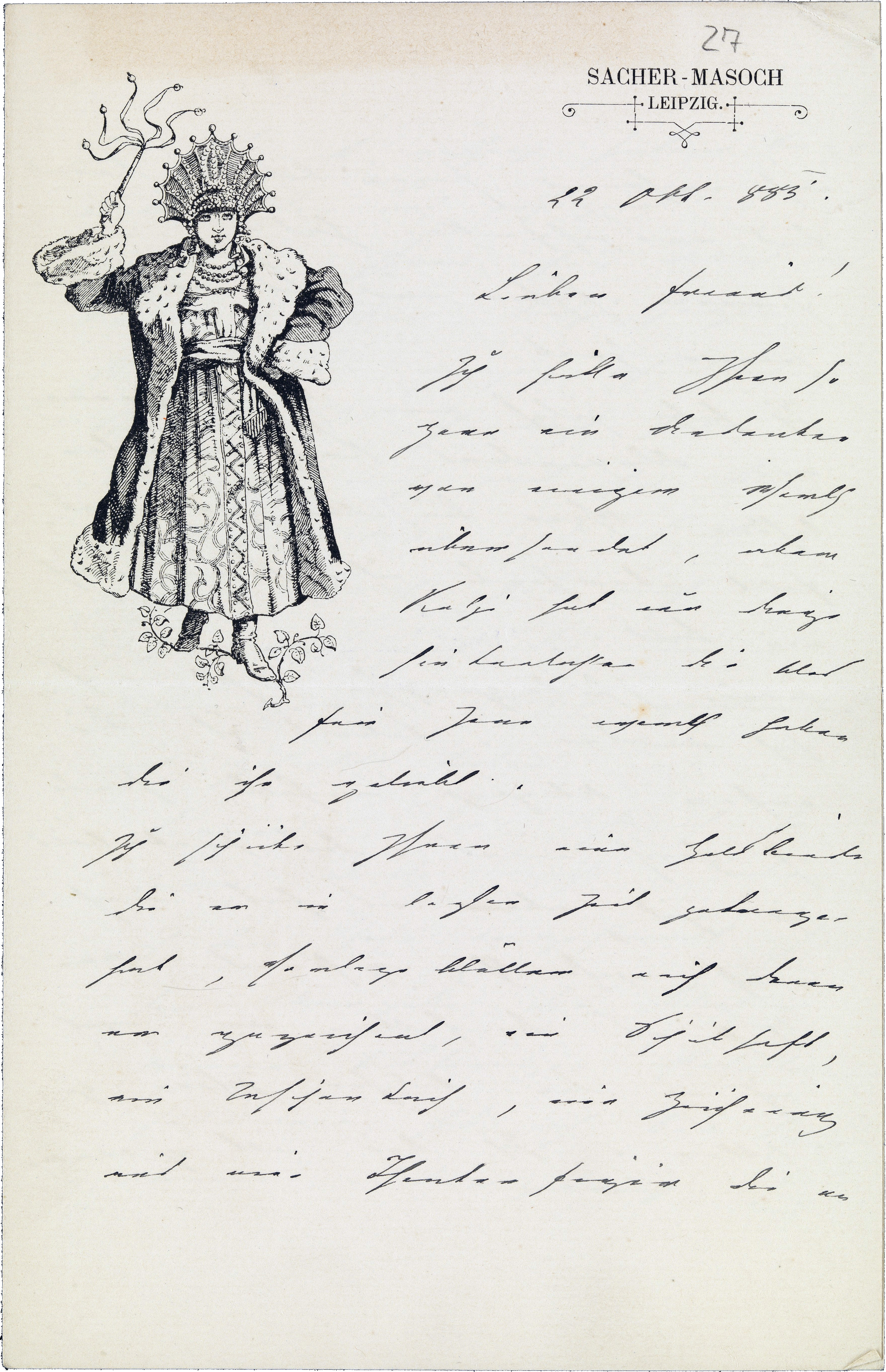 Letter written by Sacher-Masoch on his stationary. Wellcome Library MS. 6909 - L0072452.